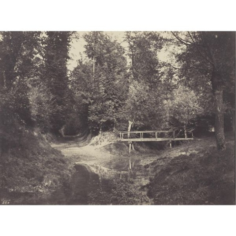 Artist Eugène Cuvelier Title Village de Rivière Medium salt print, mntd Size 10 x 13.5 in. / 25.4 x 34.3 cm Year 1860 - 1869 Misc. Inscribed Sale Of Sotheby's New York: Friday, April 13, 2007 An Important Collection of Photographs by Eugène and Adalbert Cuvelier